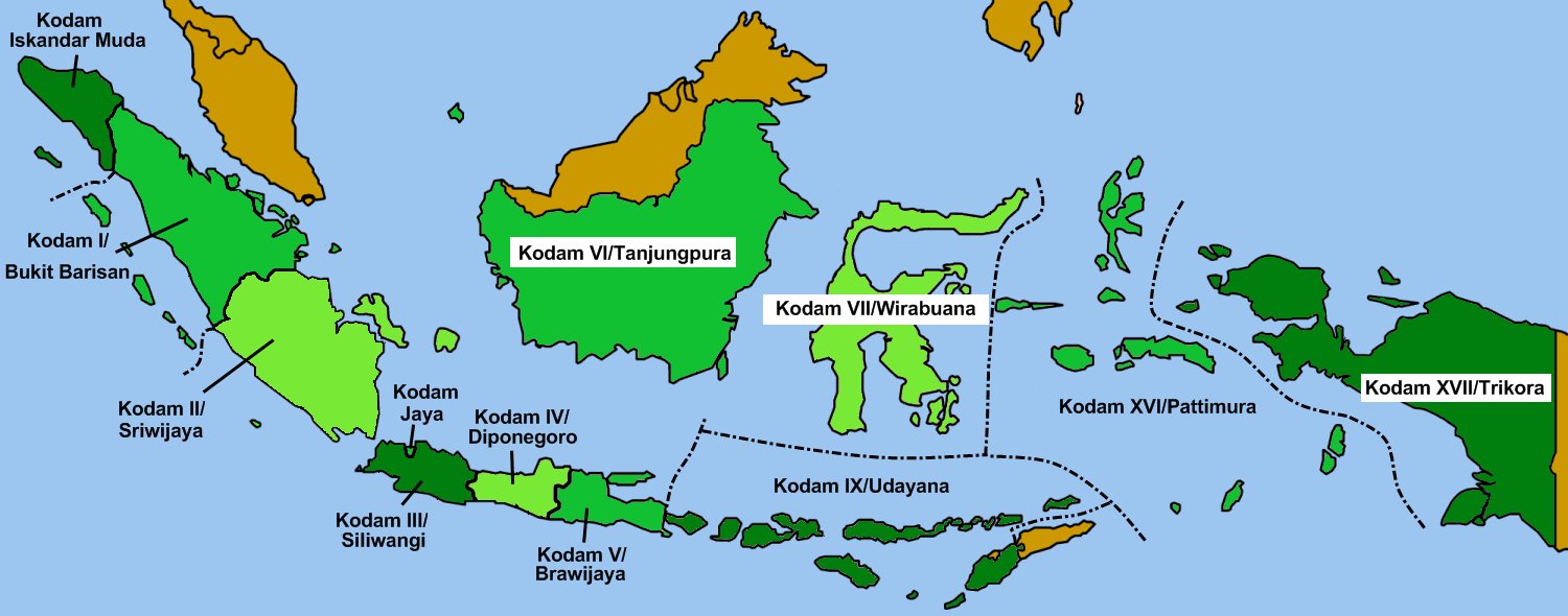 Indonesian Army Military Area Commands (Kodam) as of 2007